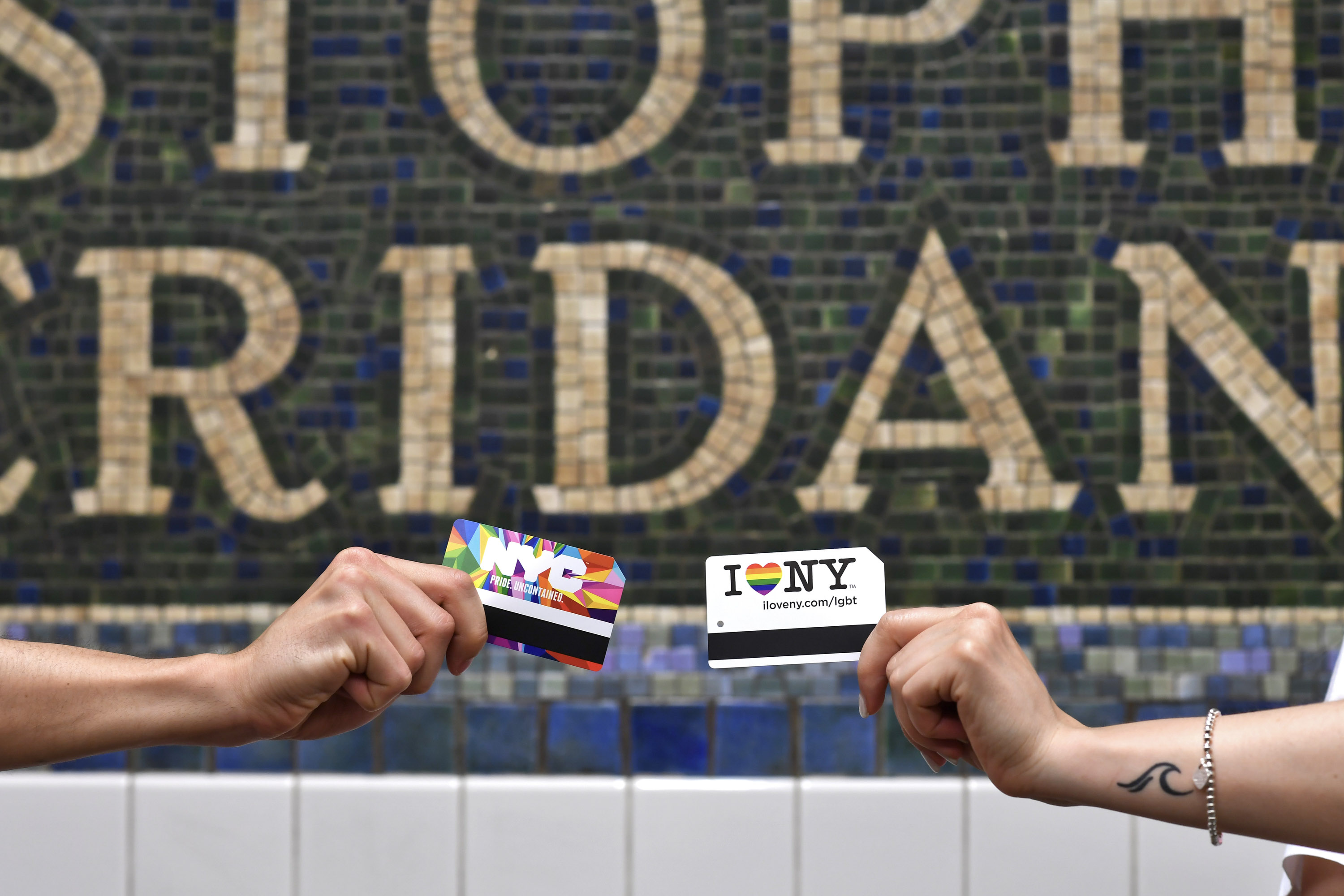 The MTA is marking the 50th anniversary of the Stonewall Uprising and 2019 WorldPride with two special limited-editiion MetroCards. Each card has a calendar of select WorldPride 2019 events in New York City. The cards were designed with love by Transit staff and include logos used by the official New York State and New York City tourism agencies. A total of 500,000 of these MetroCards were produced as part of regular MetroCard production at no additional expense to the riding public. They are available at station booths and MetroCard Vending Machines at Christopher St-Sheridan Sq, Atlantic Av-Barclays Ctr, Roosevelt Av-Jackson Heights, 50 St, 34 St-Hudson Yards, 34 St-Penn Station (1/2/3 and A/C/E), 34 St-Herald Sq, Grand Central-42 St, Times Sq-42 St, 28 St (1), 23 St (C, E), 23 St (1), 23 St (R/W), 18 St, 14 St (1/2/3), 14 St-Union Sq, 14 St (F/M), and W 4 St. Distribution began first on May 30 at Christopher St, the home subway station for Stonewall Inn. Photo: Marc A. Hermann / MTA New York City Transit